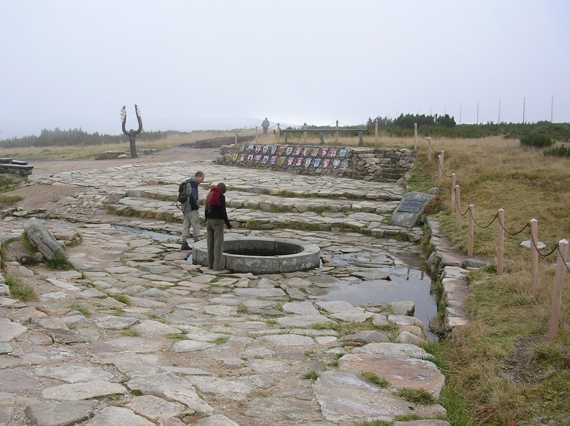 Elbe Spring, Krkonoše Mountains, the Czech Republic.